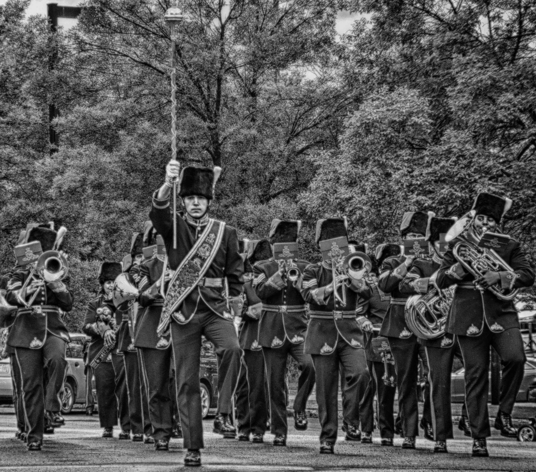 500px provided description: Rca Band [#RCA ,#RCA Band]